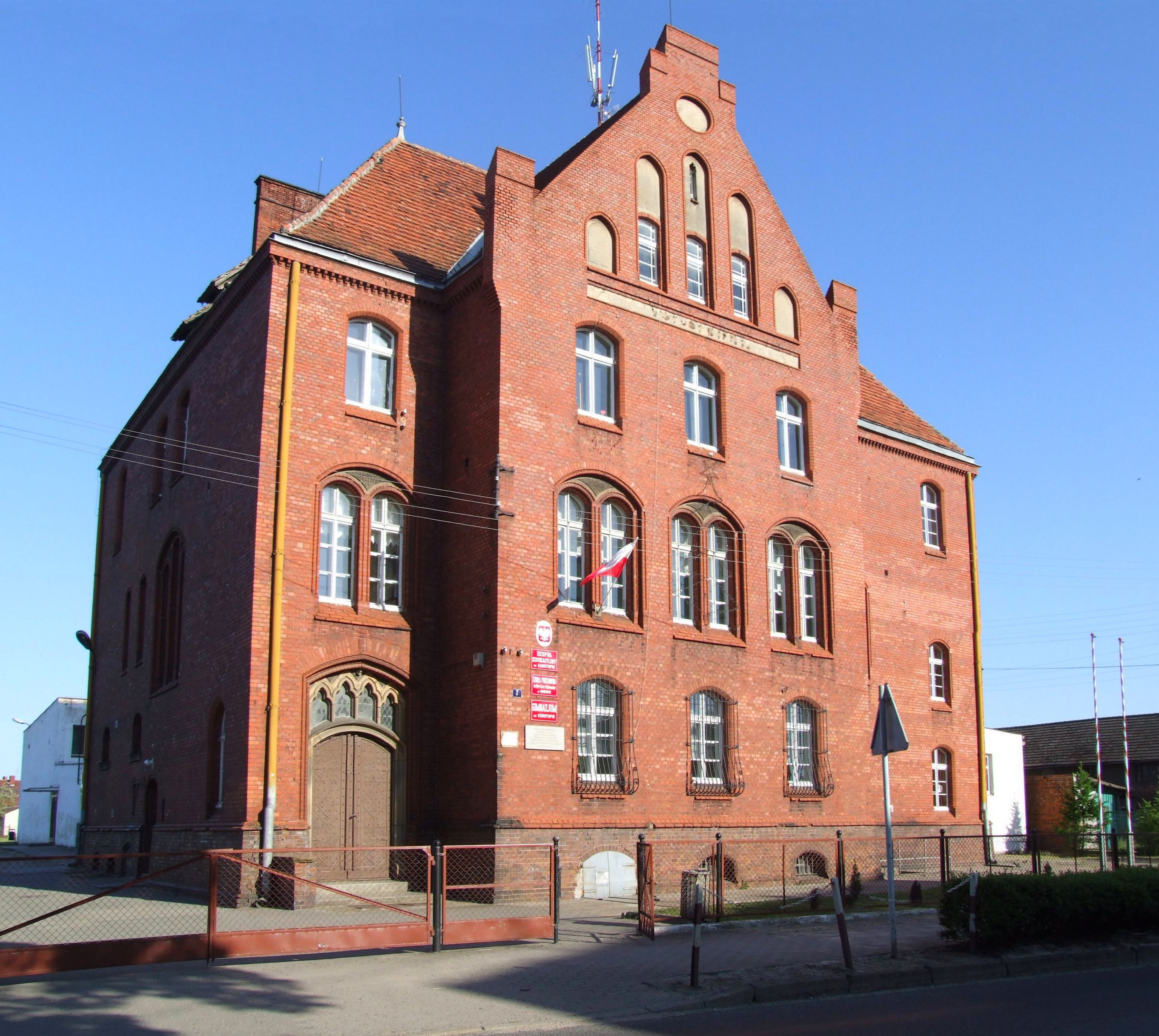 Konotop near Zielona Góra. School building, formerly - court of justice